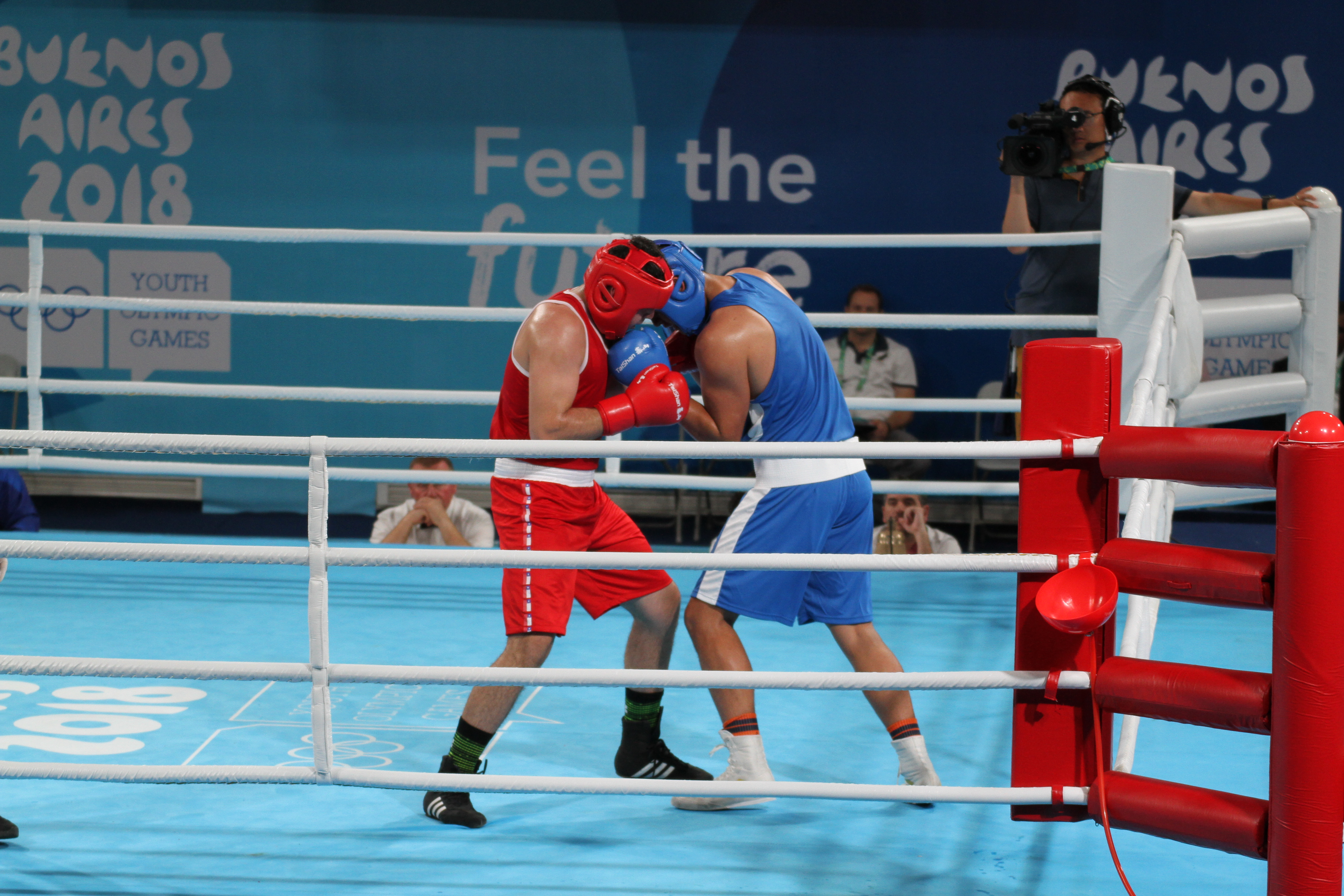 Boxing at the 2018 Summer Youth Olympics. Men's Heavy (91kg) Bout for 5th Place